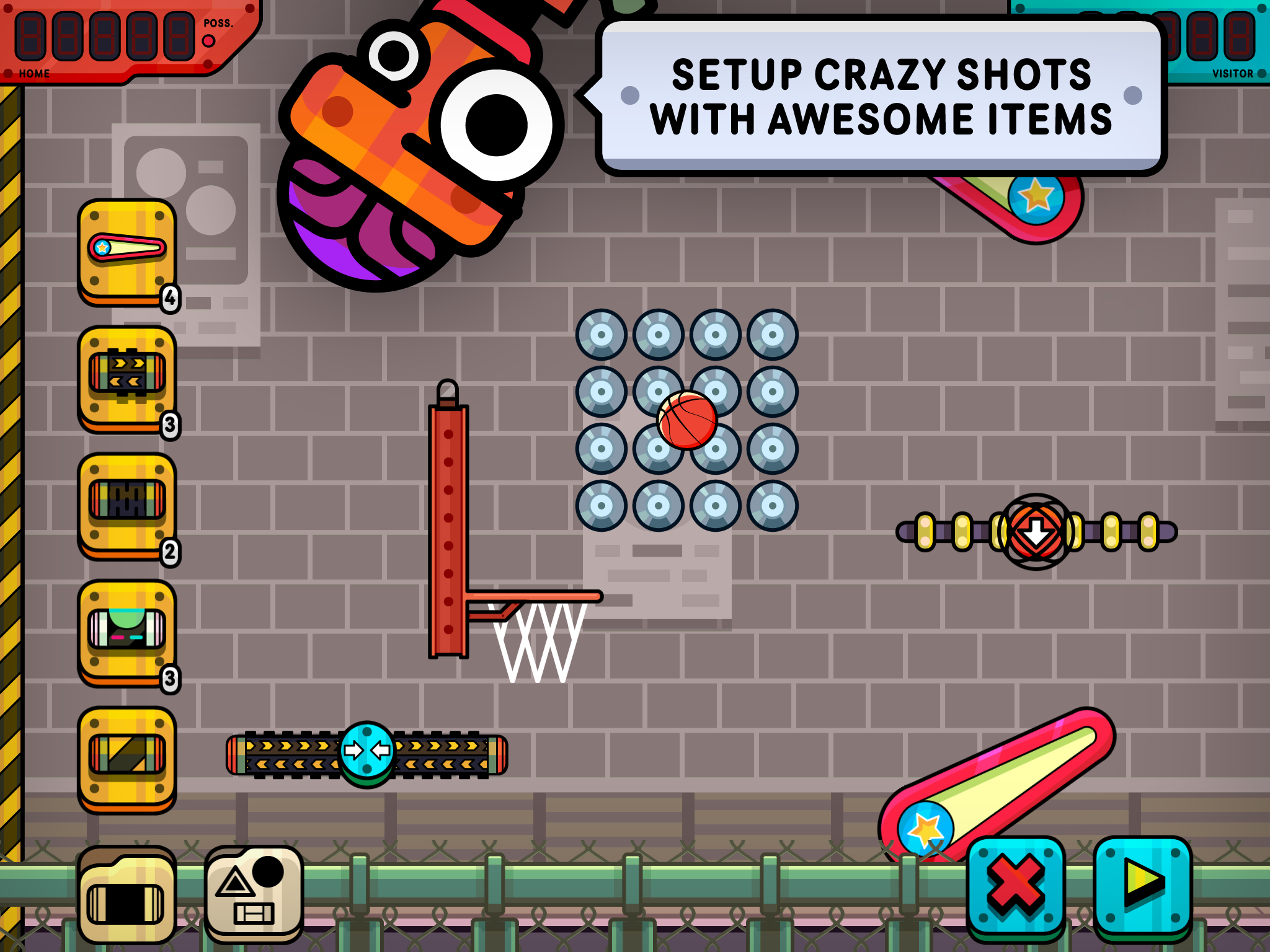 Screenshot from Gasketball